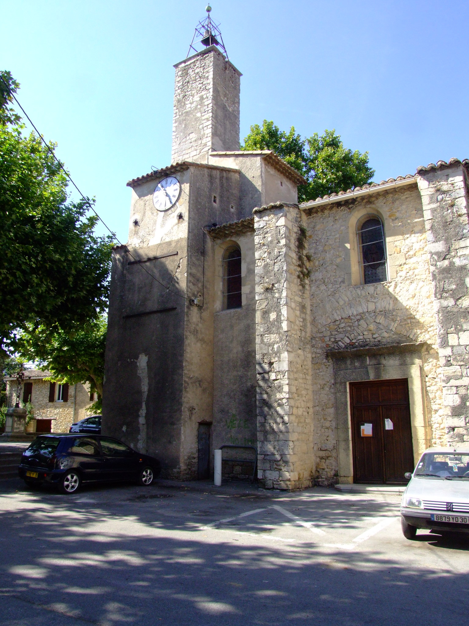 Quissac is village on the banks of the Vidourle in the department of Gard, France, some 20 km north of Sommières.. Church.